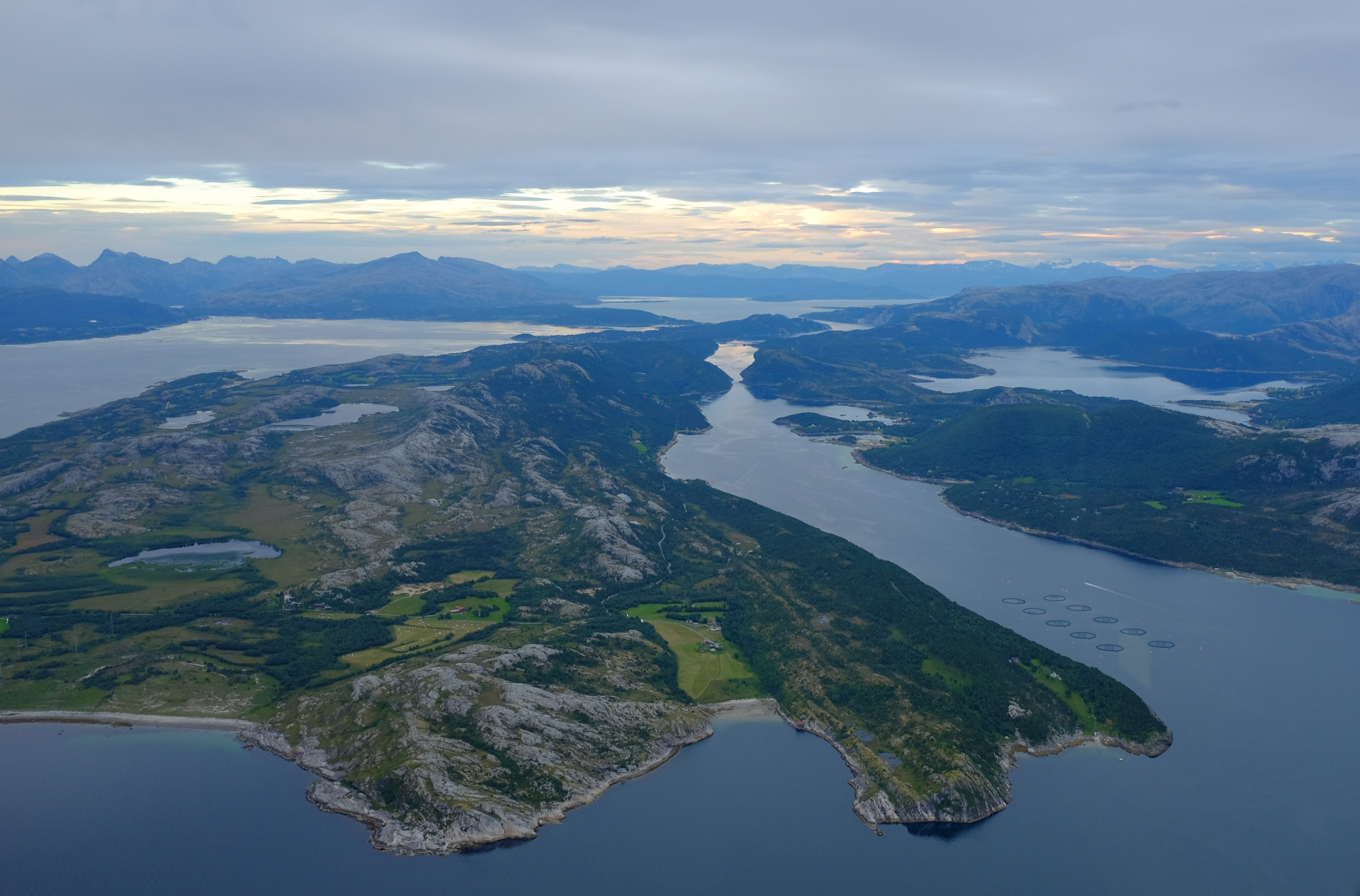 Ytre Sundan is a nearly eight-kilometer drain in Bodø municipality in Nordland that separates the western part of Straumøya from the mainland. The trench runs from Beiarkjeften in southwest to Sundstraumen in the Northeast. Moreover, from Sundstraumen continues Inner Sundan northeast to Svefjorden. This sound system has a coherent length of 13 km.